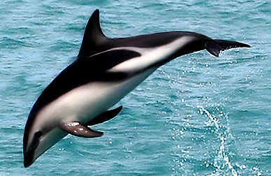 A wild dusky dolphin named "Nox".